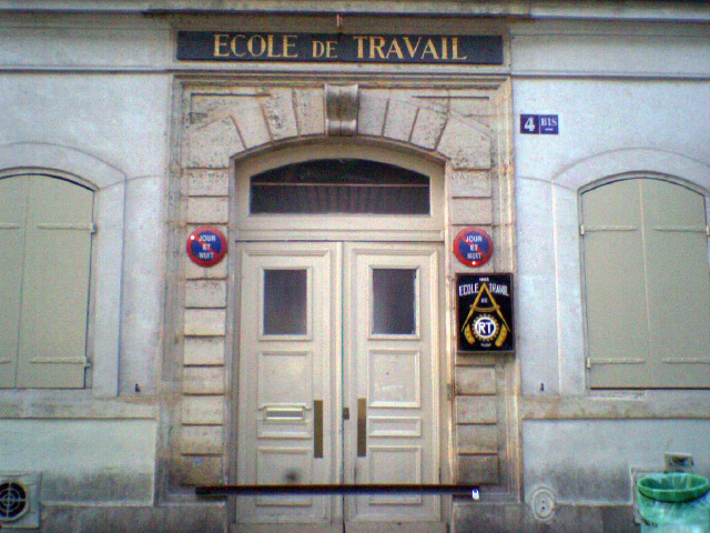 School "École de travail" at Rue des Rosiers, Paris, France